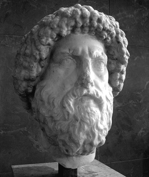 Portrait of Juba I, king of Numidia (c. 85 BC-46 BC). Marble, Roman artwork, ca. Christian Era. From Cherchell (ancient Cæsarea), Algeria.